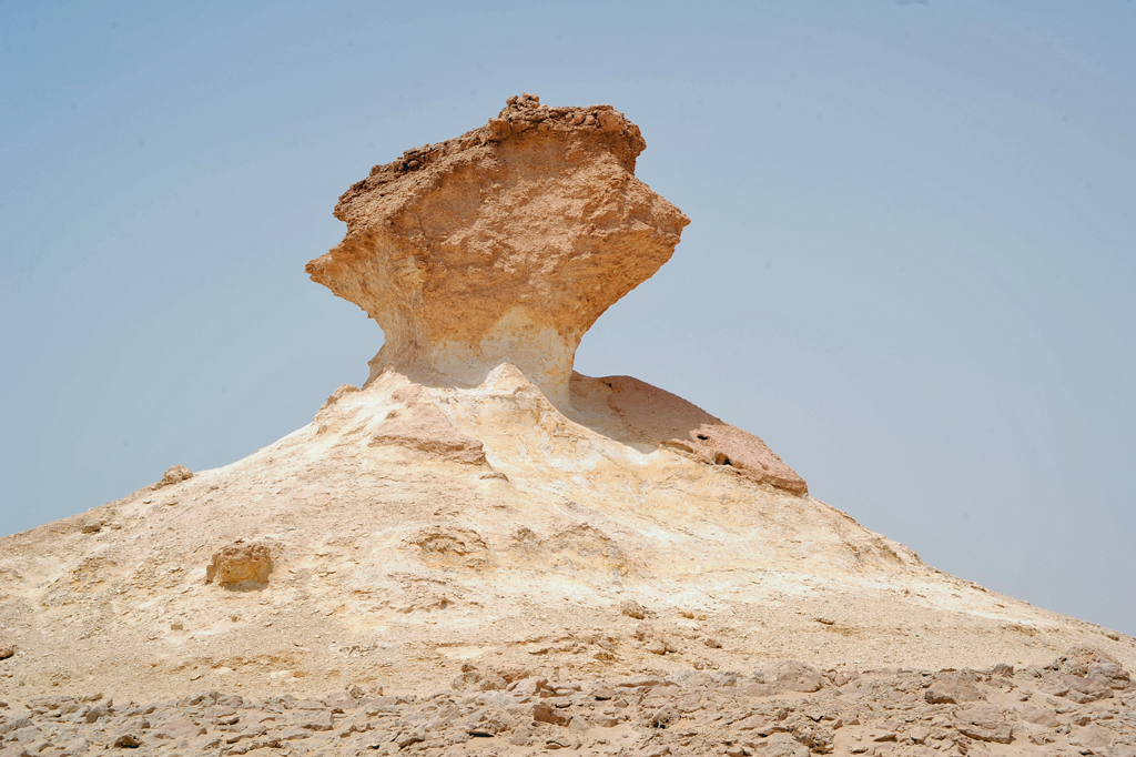 These strange rock formations lie a 100km or so west of Doha.